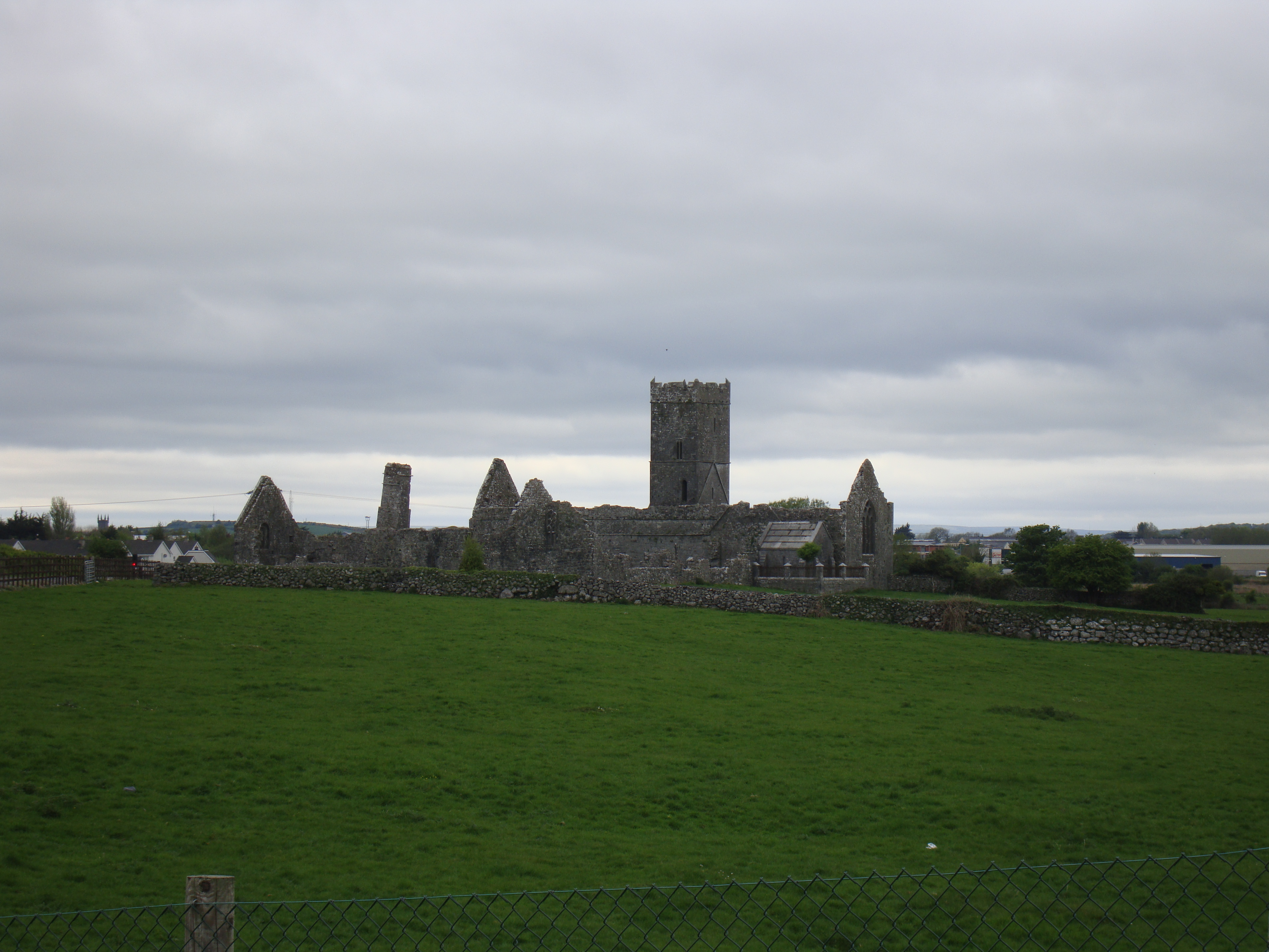 Photograph of the remains of Clare Abbey, Co. Clare, Ireland